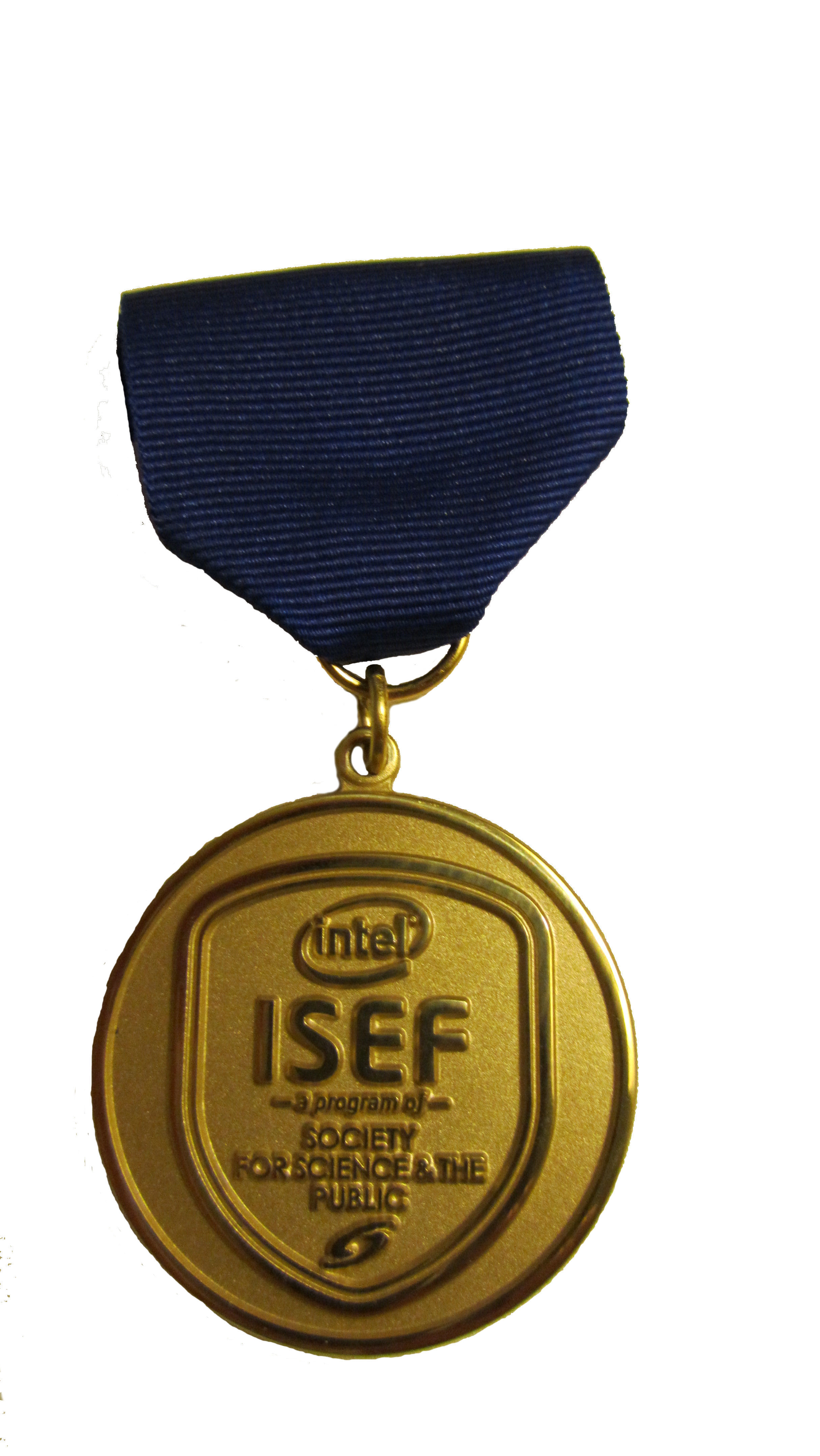 Medal given to Finalists of the Intel ISEF